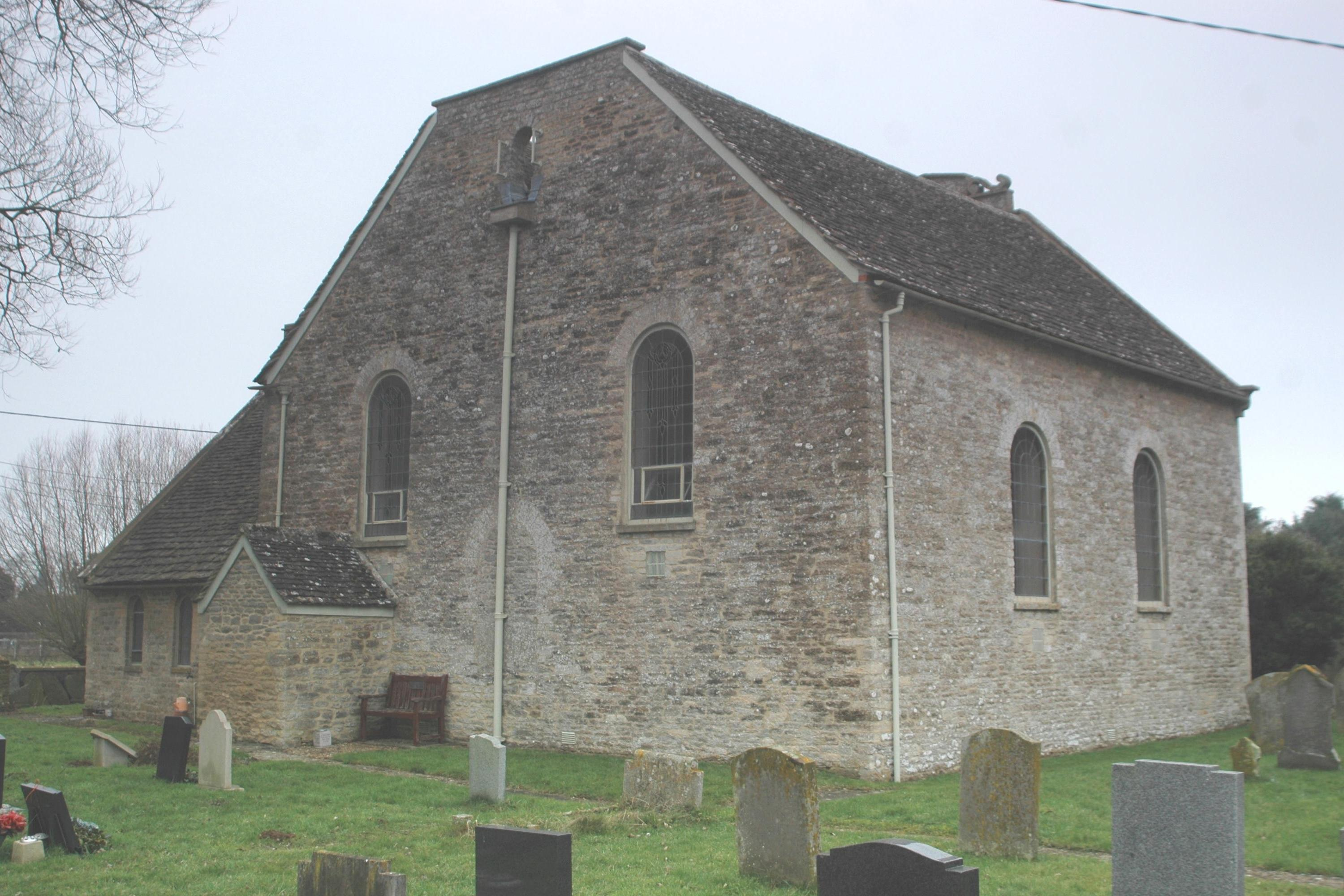 Former Baptist chapel at Cote, Oxfordshire, built in 1756 and altered in 1859.